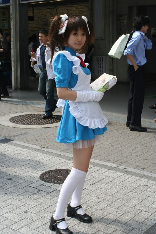 Handing out flyers for a new maid café in Akihabara.